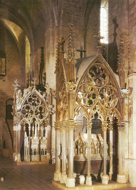 Tombs Royals of James II, and Peter III of Aragón. Monastery of Santes Creus. (Spain)